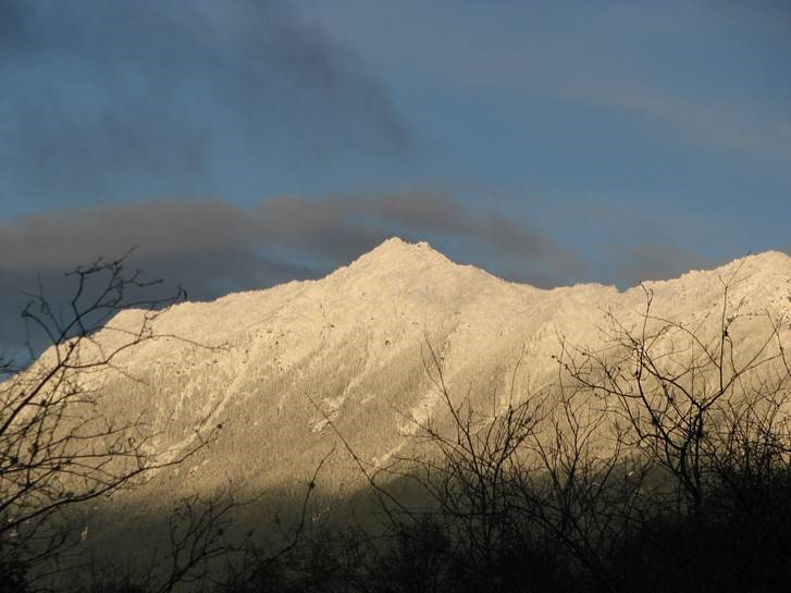 170125-FS-Olympic-KR-001, Forest Service Photo by Kimberly Roper